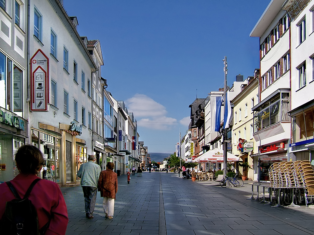 Buildings in Bad Homburg vor der Höhe, Germany